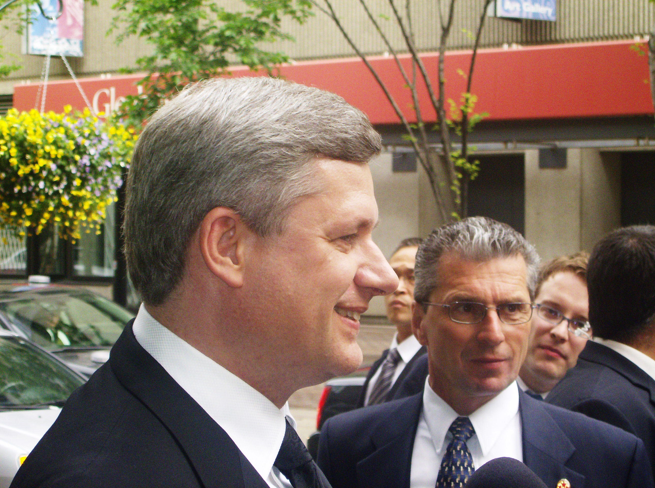 Stephen Harper (left/foreground) outside the Telus Covnention Centre on the North side of Stephen Avenue (8 Avenue), between Centre and 1 Street SE, in Calgary, Alberta, Canada. Harper was chatting with the media just before entering the building.